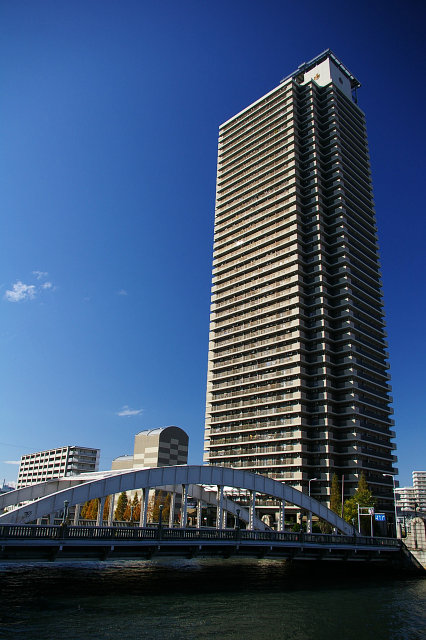 Dojima-Ohashi and King Mansion Dojimagawa, Osaka city, Japan